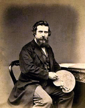 Edward Angelo Goodall (1819-1908), English watercolourist